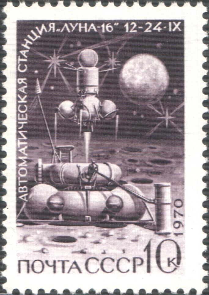 USSR stamps: Luna 16 Leaving Moon (1970.09.20). Series: Luna 16 unmanned, automatic moon mission, September 12–24